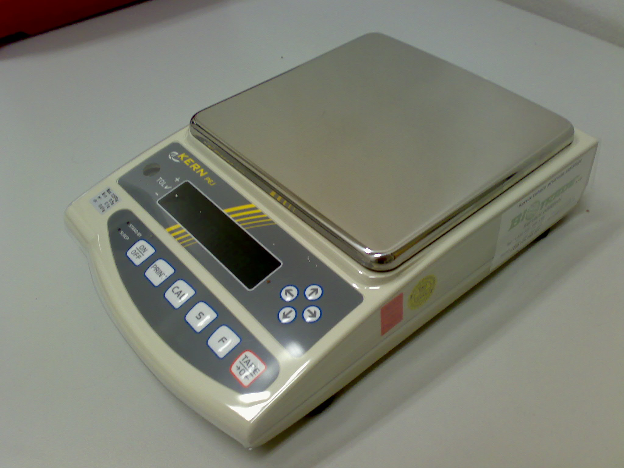 Laboratory balance PEJ 2200-2M by KERN & SOHN